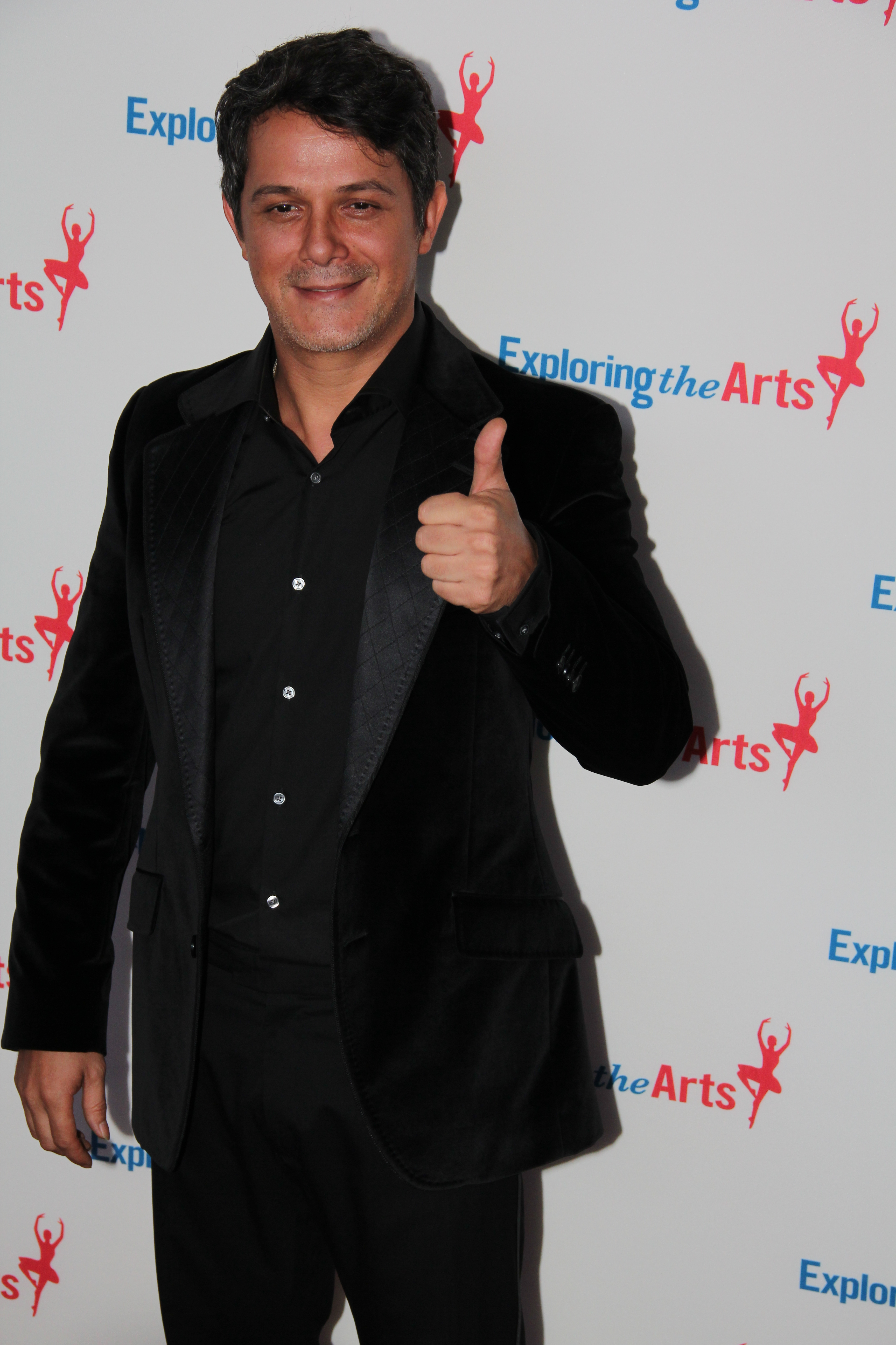 Tony Bennett Birthday Gala September 18th 2011 Metropolitan Opera House, New York City.